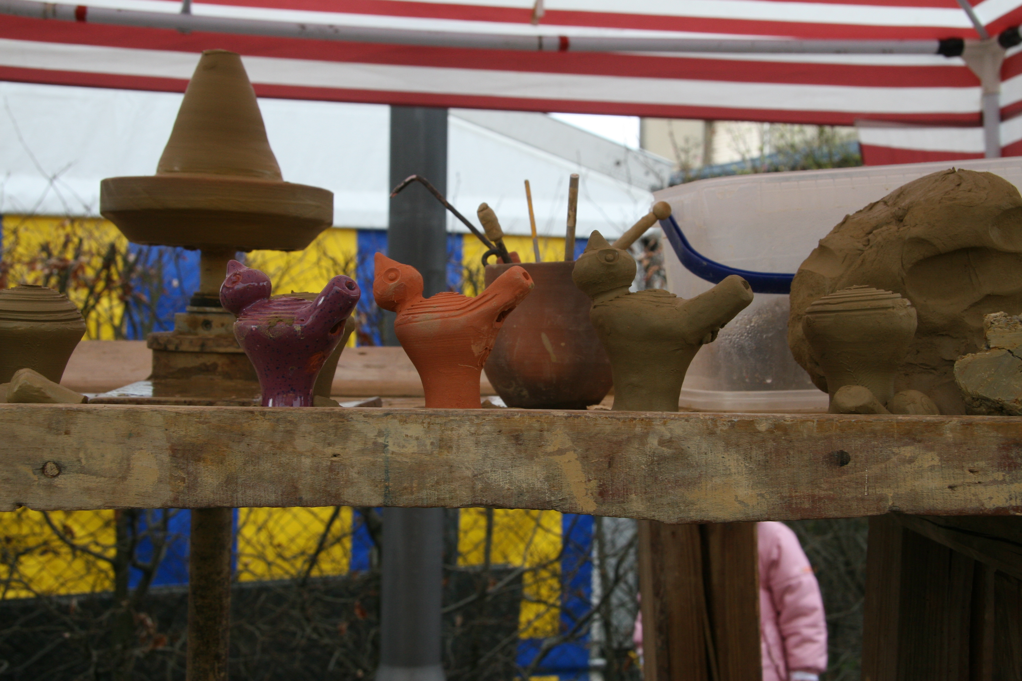 "Eemaischen", traditional market in Nospelt, Luxembourg.